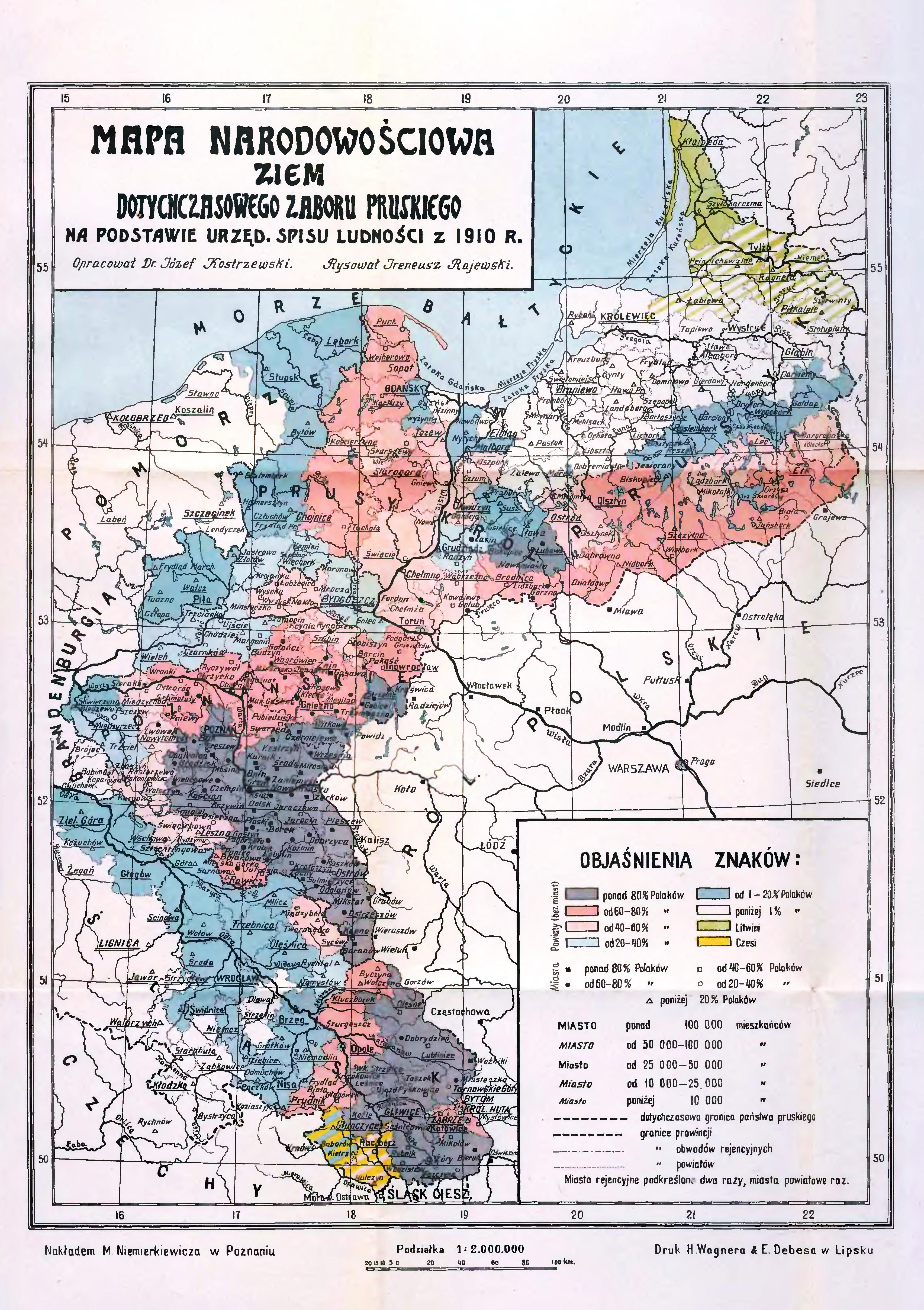 Ethnic map of the former Prussian partition lands, based on the census of 1910. Legend note: "% of Poles"